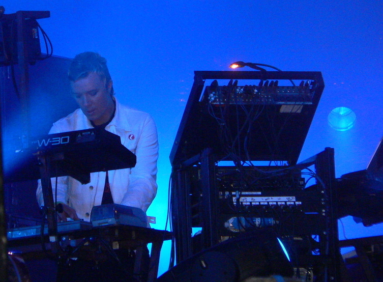 The Prodigy member Liam Howlett at SonneMondSterne-Festival Germany - Aug.2005